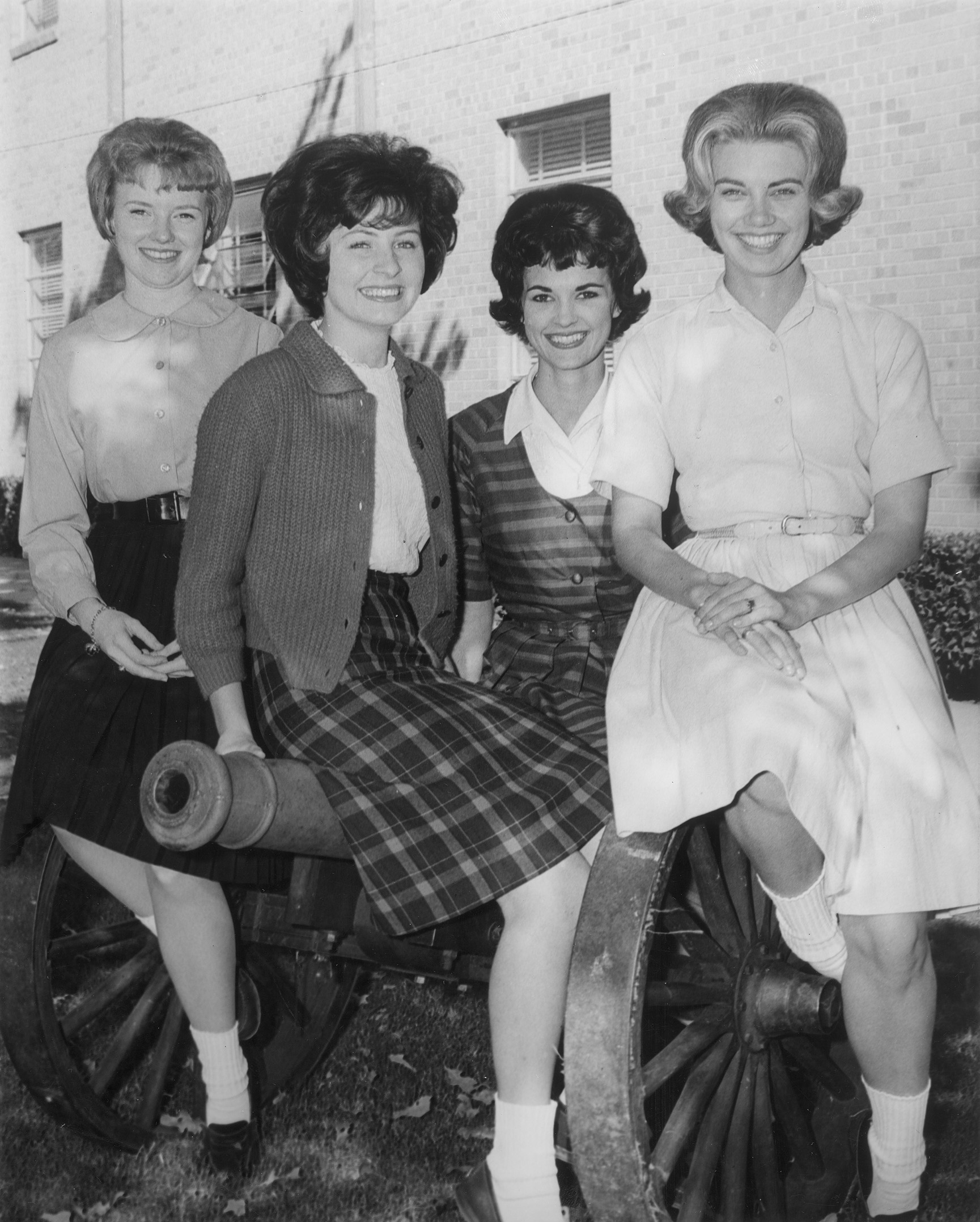 Arlington State College Miss Dixie Belle candidates sitting on cannon: Linda Davis, Martha P[?], Janet Peterson, Monda Freeman.